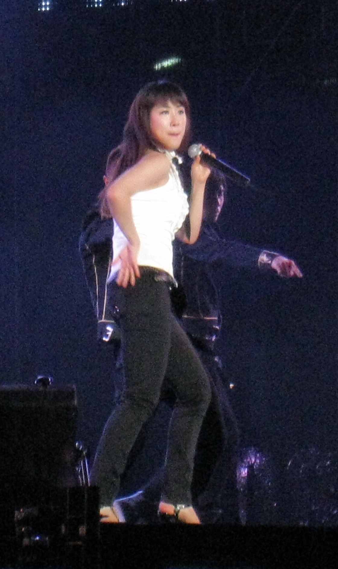 Zhang Liyin Live at SMTOWN Live in Bangkok